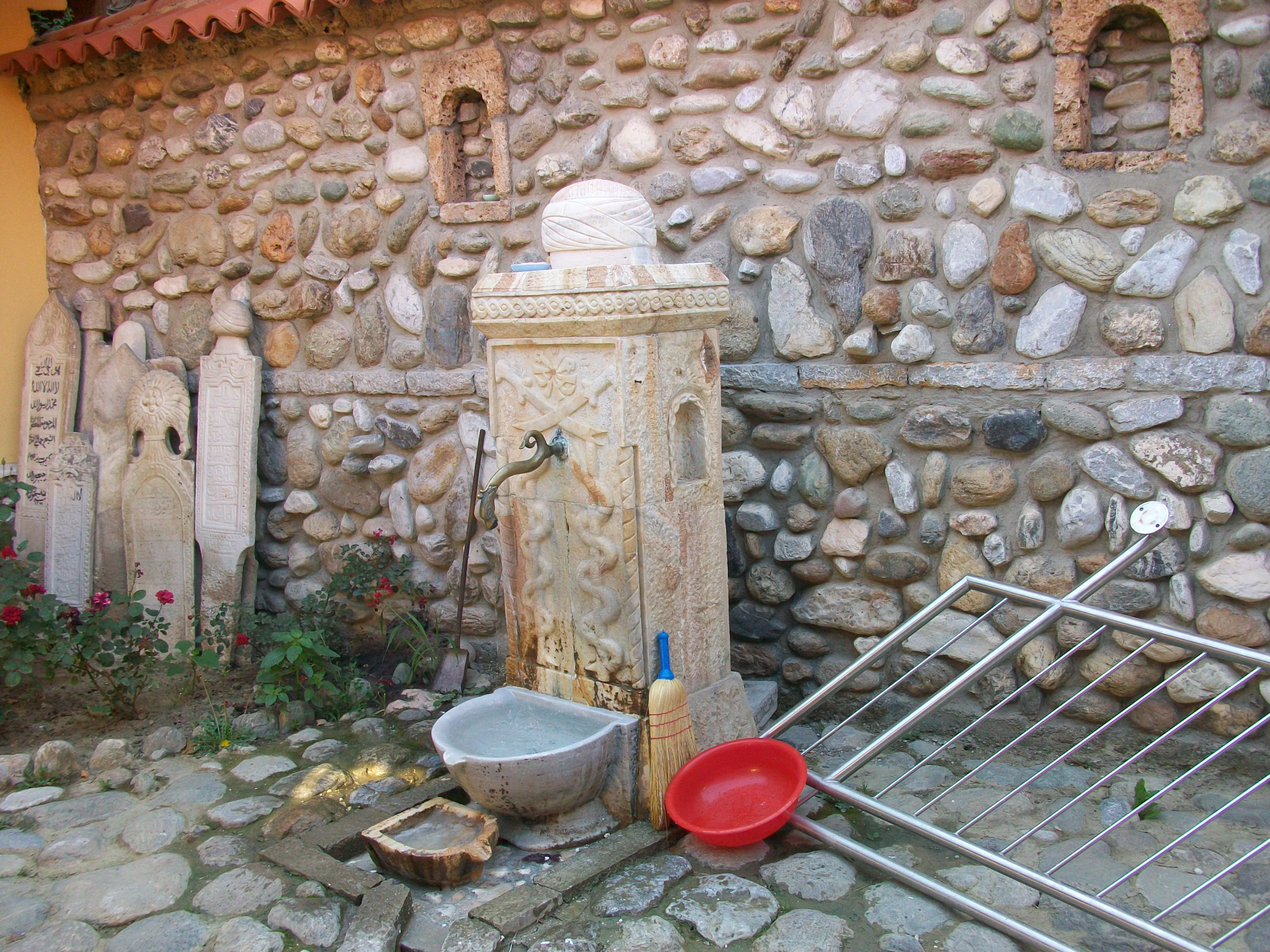 Pictures from Prizren Kosovo